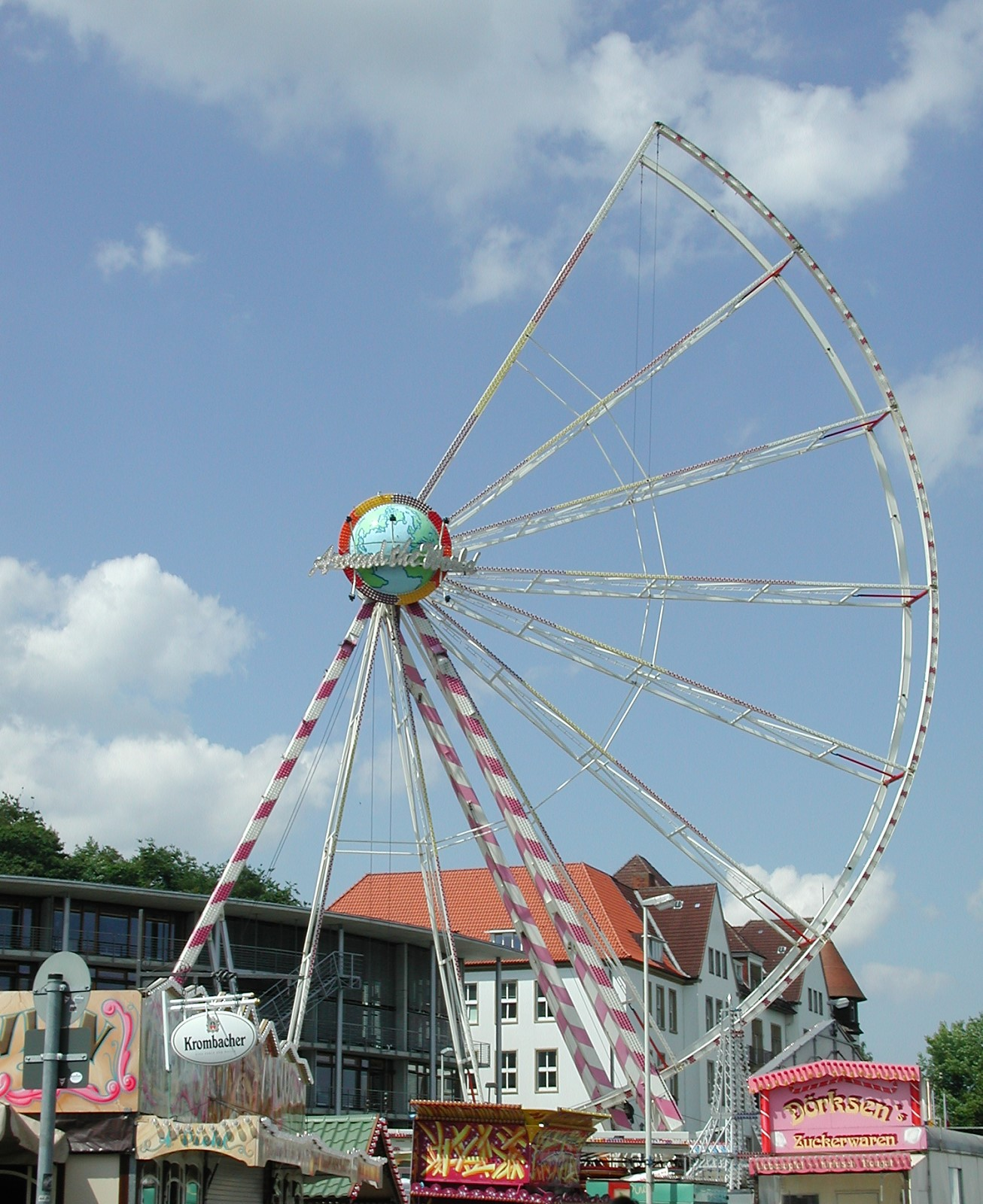 Transportables Riesenrad around the world beim Aufbau.